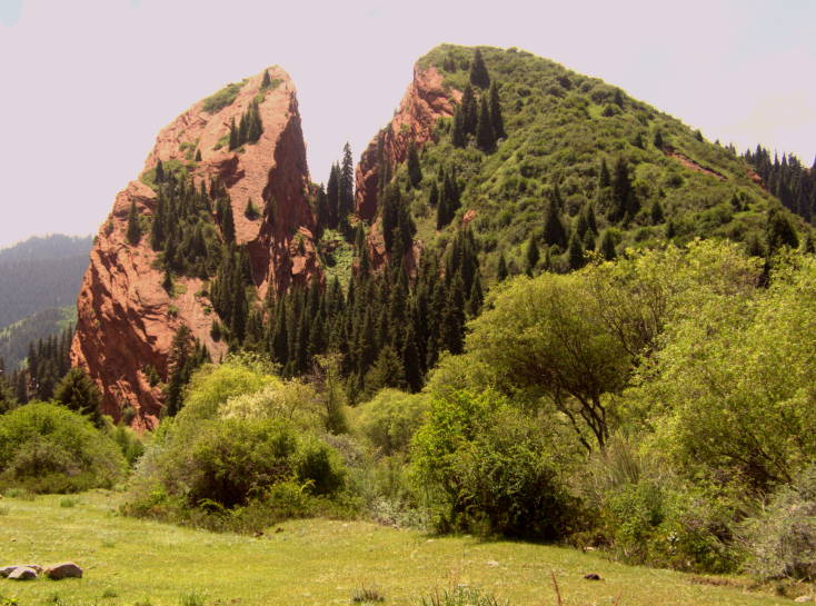 This is the view from the back side of Jety-Oguz (Seven Bulls). From the other side, these bumps are bulls #6 and 7.